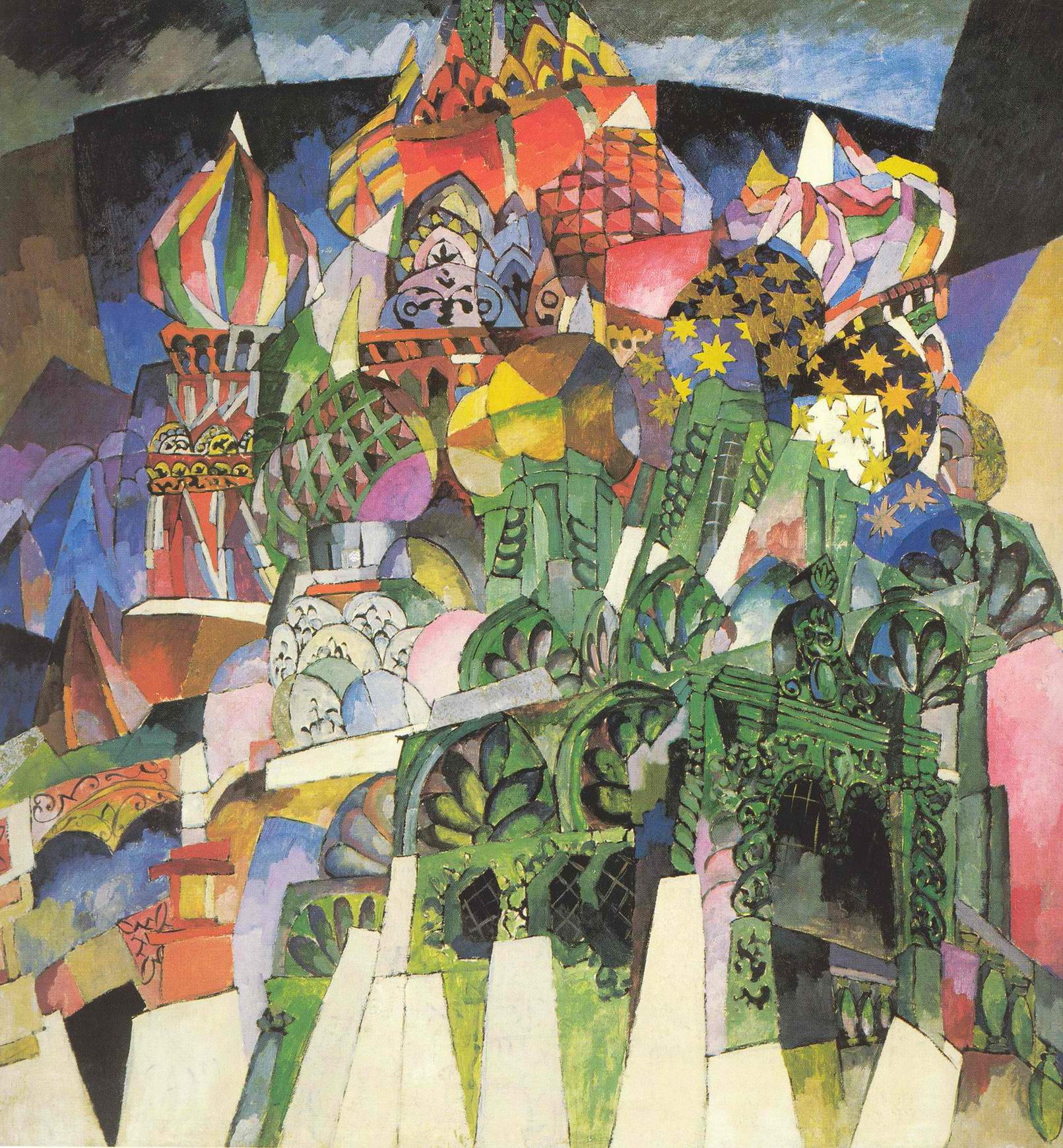 Saint Basil's Cathedral, 1913, Tretyakov Gallery